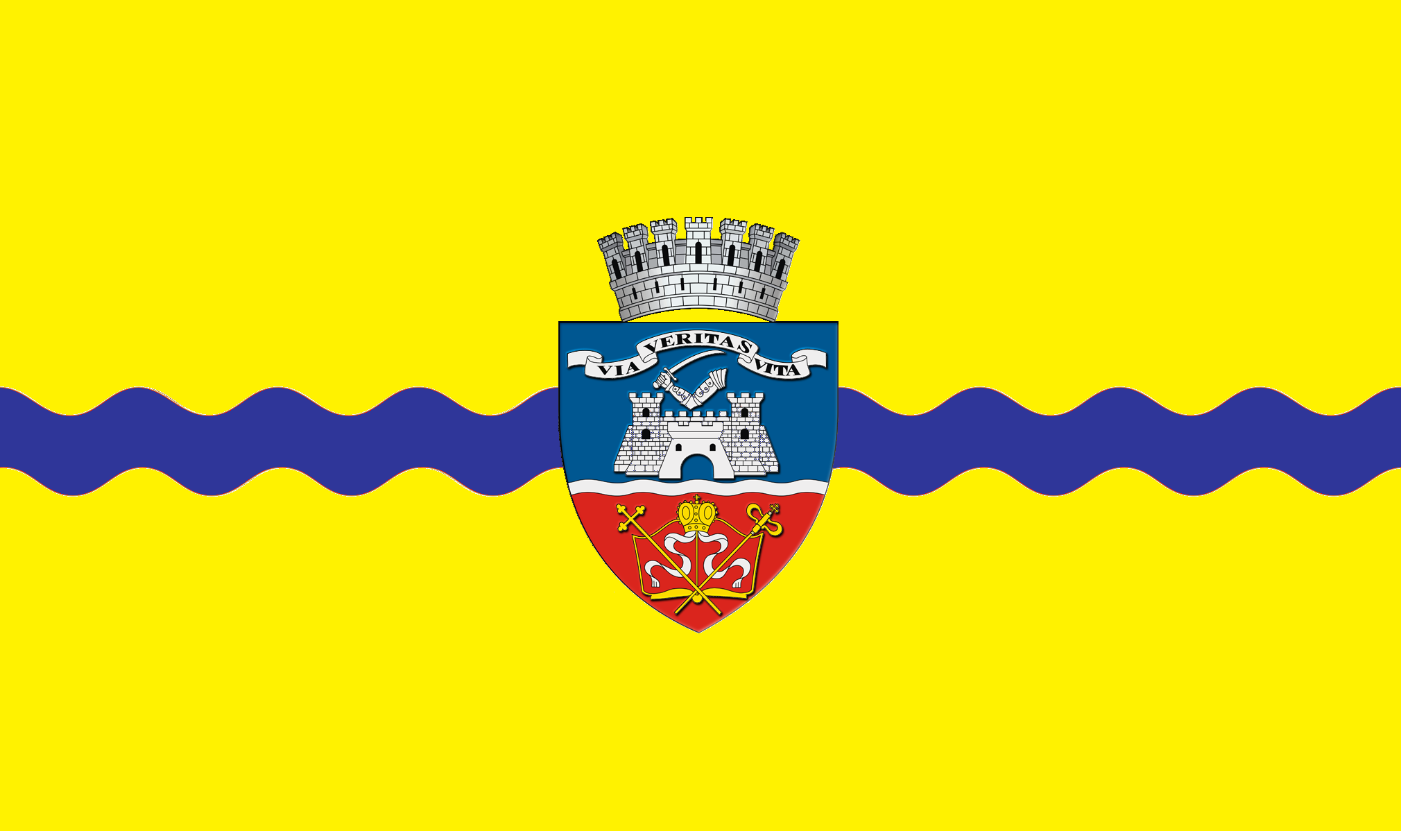 The actual flag of the municipium of Arad,in Arad County, Romania.